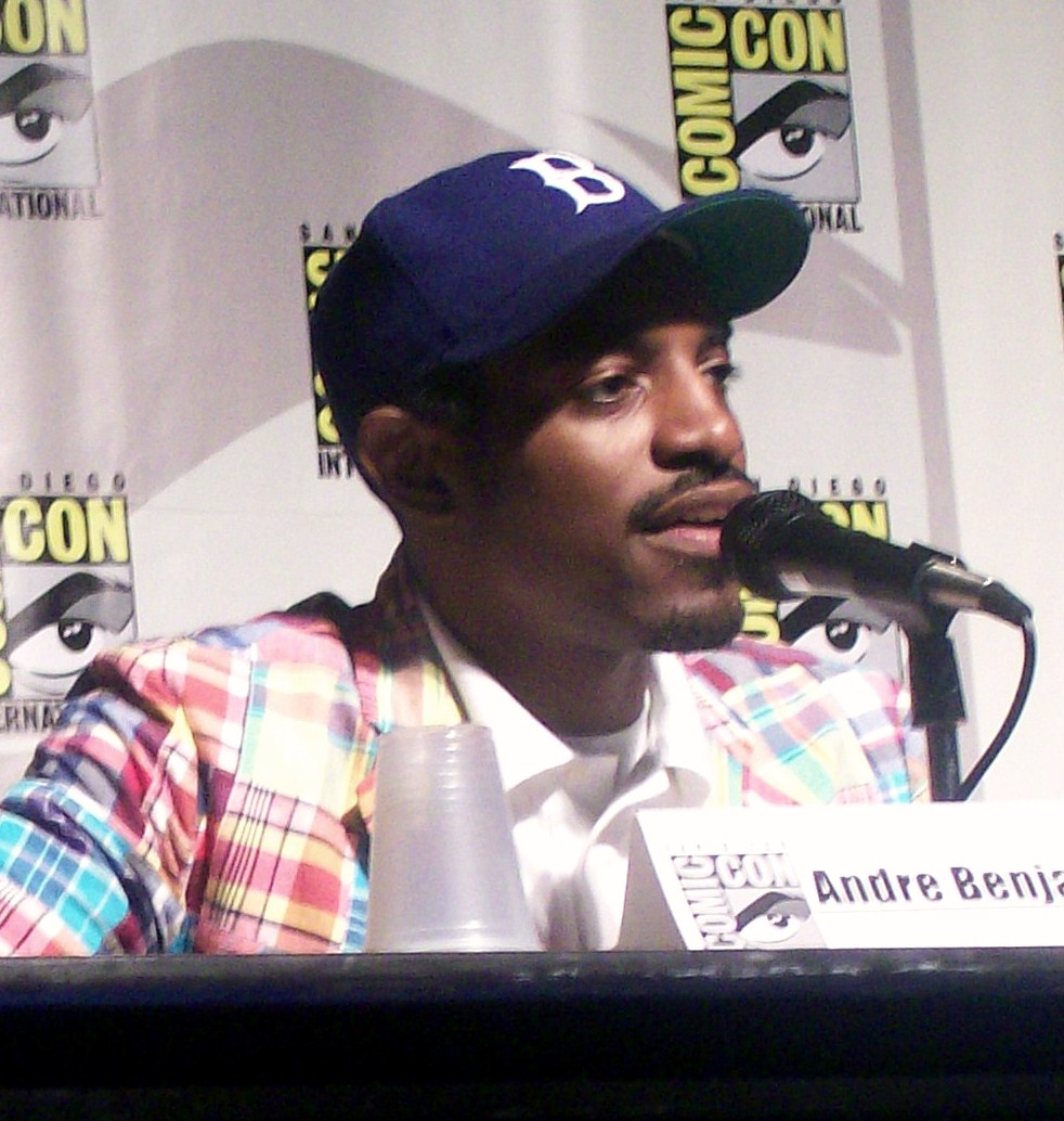 Andre 3000, AKA Andre Benjamin at the 2007 Comic Con in San Diego for Class of 3000.